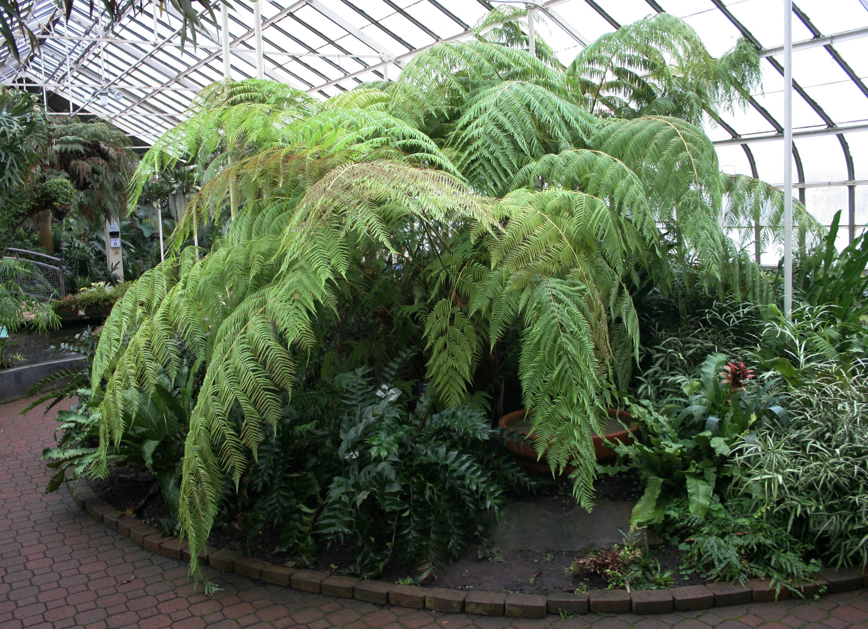 Mexican tree fern (Cibotium schiedei) at the Buffalo and Erie County Botanical Gardens.